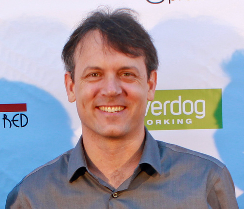 John Dragonetti, Brian Knappenberger, and Andy Roblerston of We Are Legion